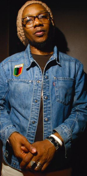 Erik Rico London studio session